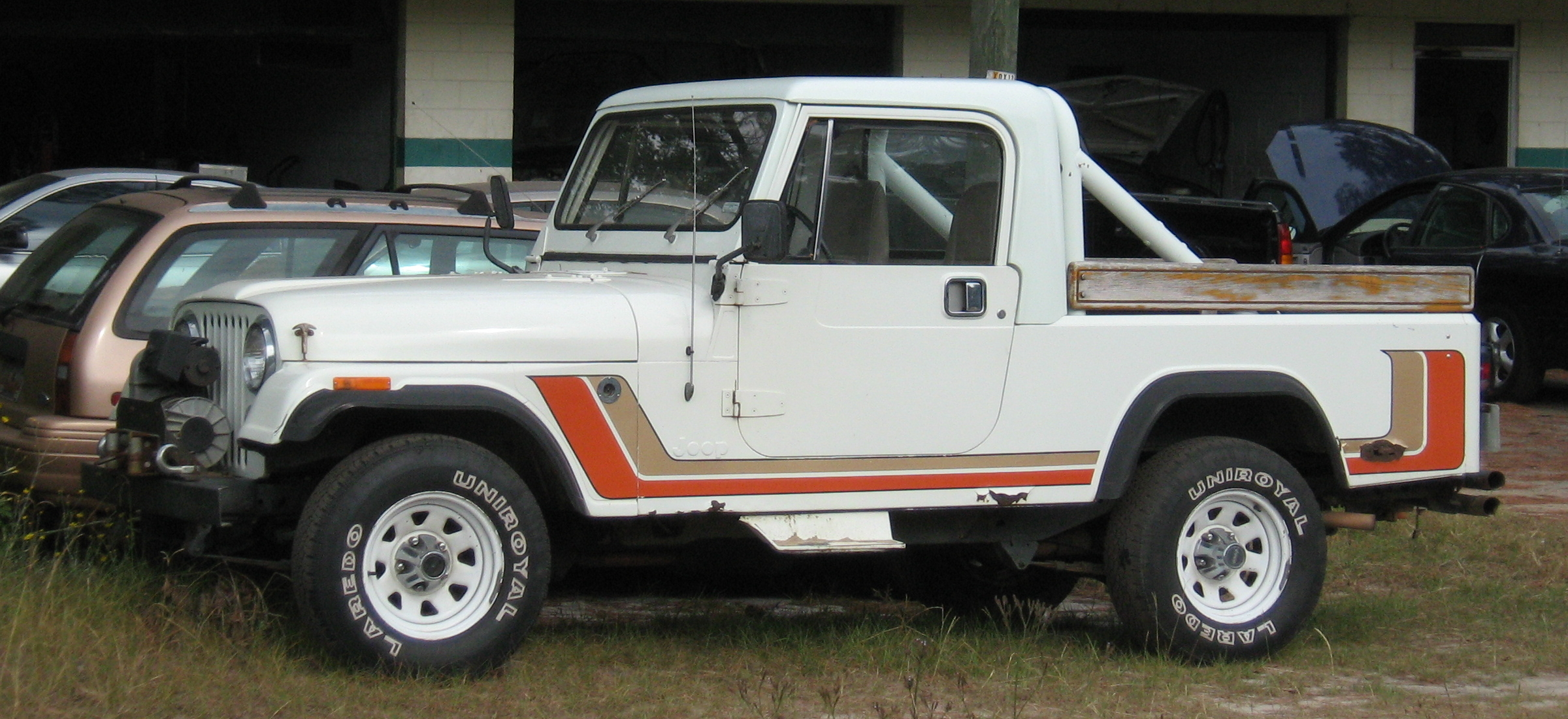 Jeep SCrambler compact 4X4 pickup truck by American Motors Corporation (AMC). Vehicle has the original stripes and wood side rails. Accessory winch mounted on front. Picture taken in South Carolina